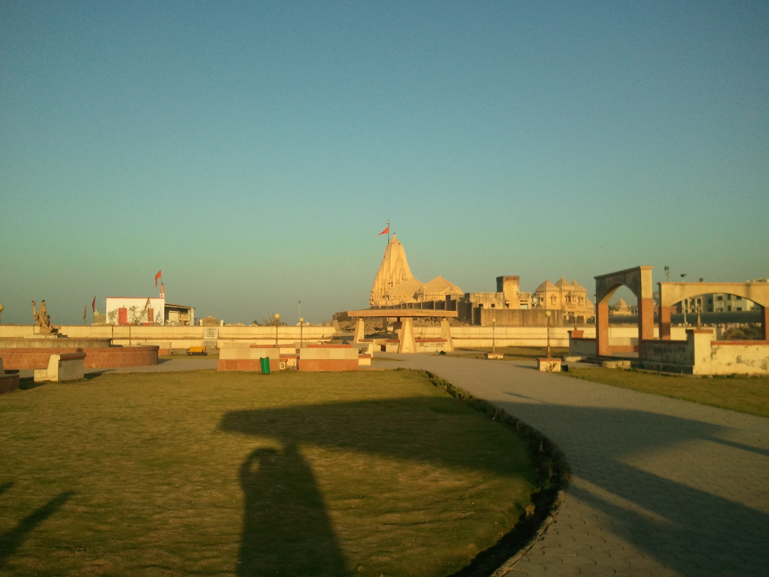 Somnath Temple- Gujrat